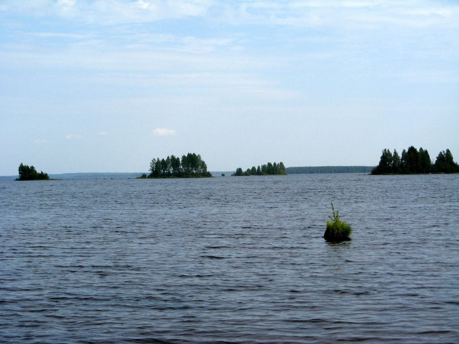 Vygozero near Segezha